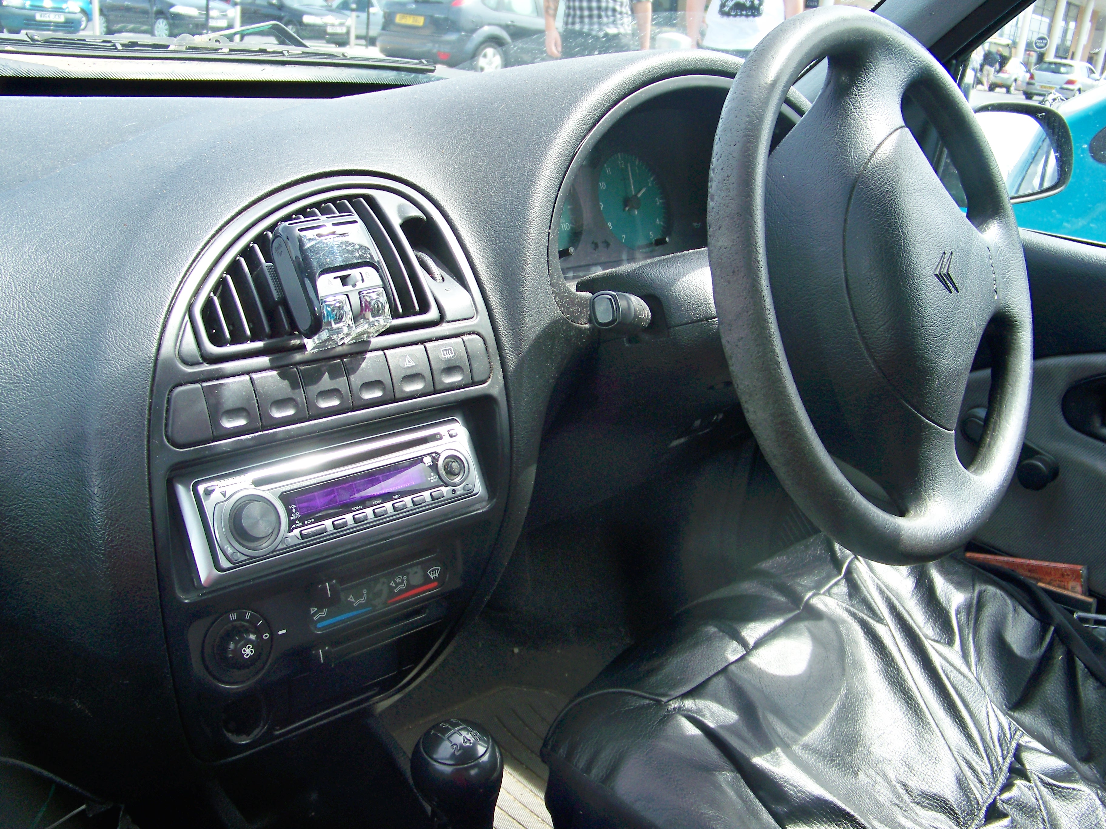 The interior of an early pre-facelift ('S' registered) Citroën Saxo Scandal. The radio is not a factory fitted one and the seats have been covered. Taken on the afternoon of Friday the 18th of June 2010.